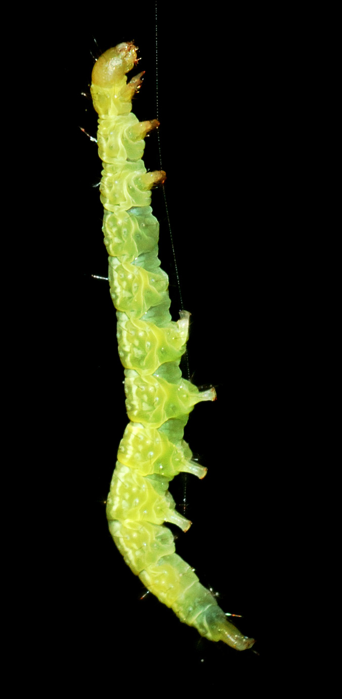 This image shows a 12 mm large caterpillar. The species is unknown, any help identifying it would be greatly appreciated.